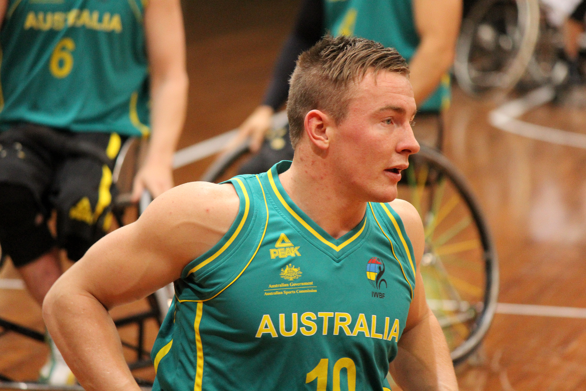 Australian Rollers at the Sports Centre.